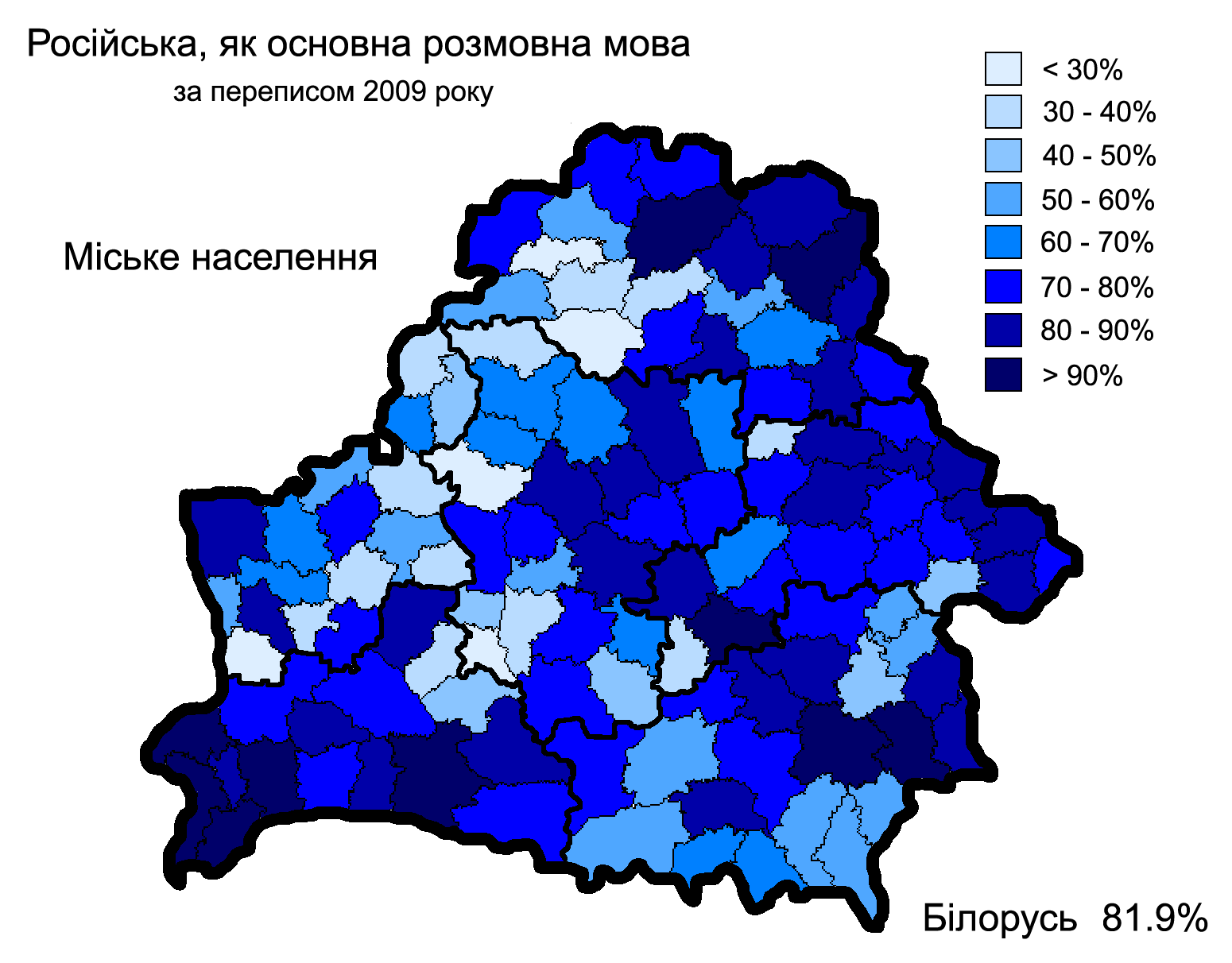 Russian as a "language spoken at home" among the urban population according to the 2009 Belarus Census